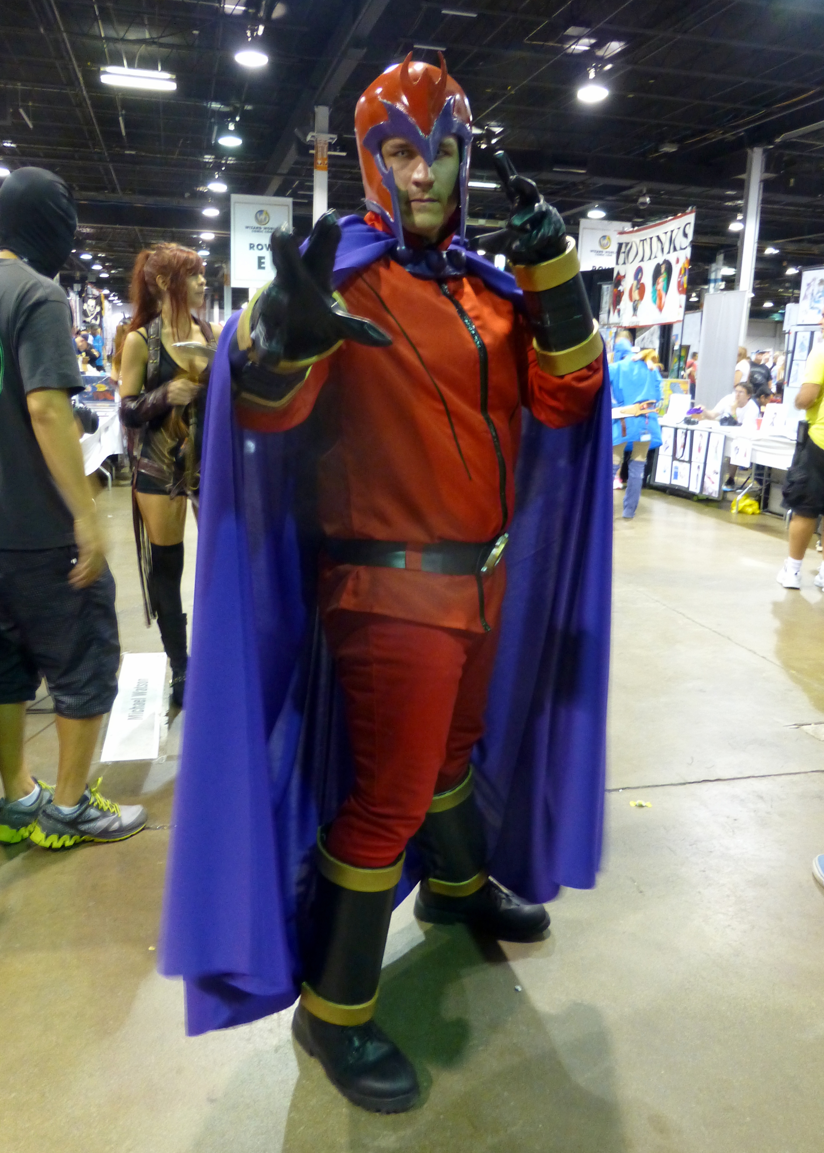 Cosplay at the 2014 Wizard World Chicago.